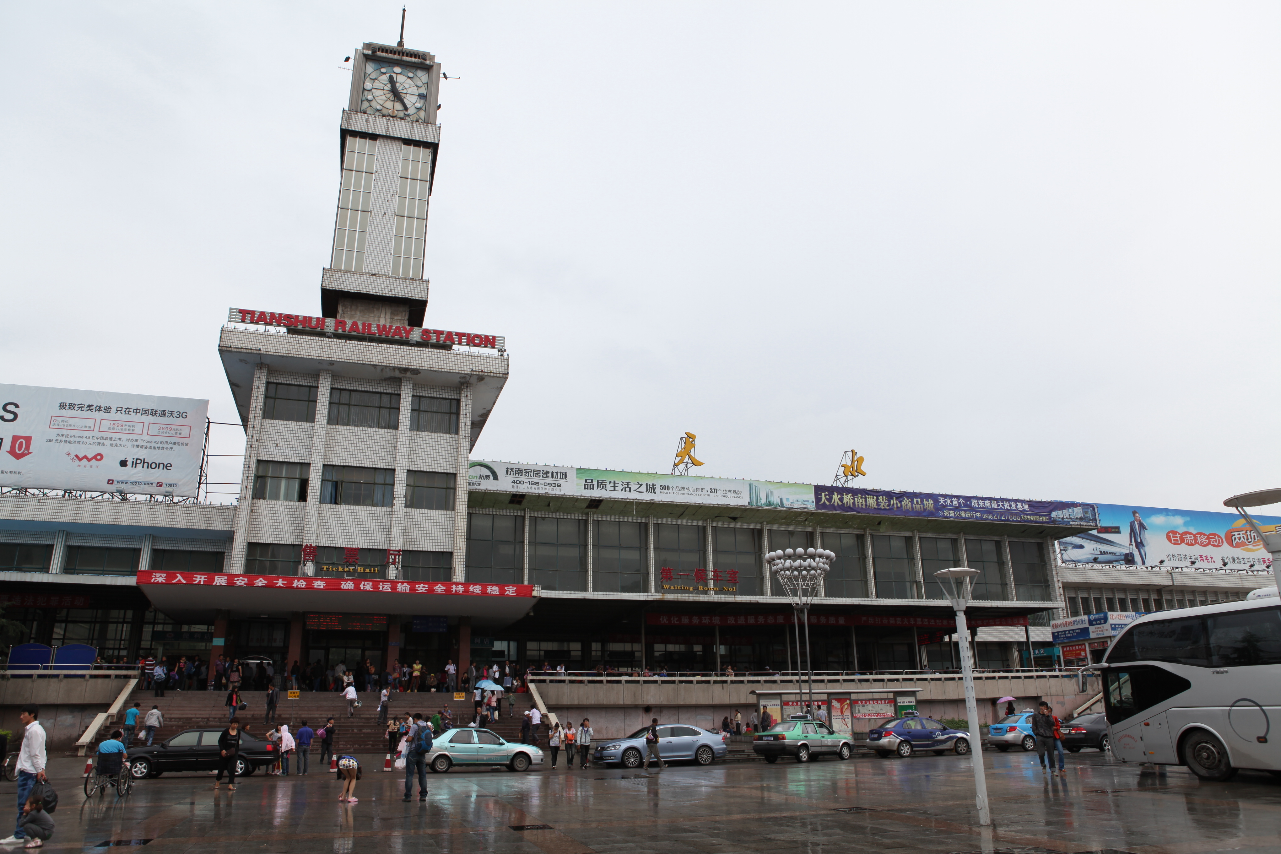 Tianshui Station Outside